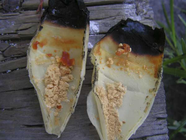 The purported ear wax and toxins claimed to have been vacuumed out during ear candling.